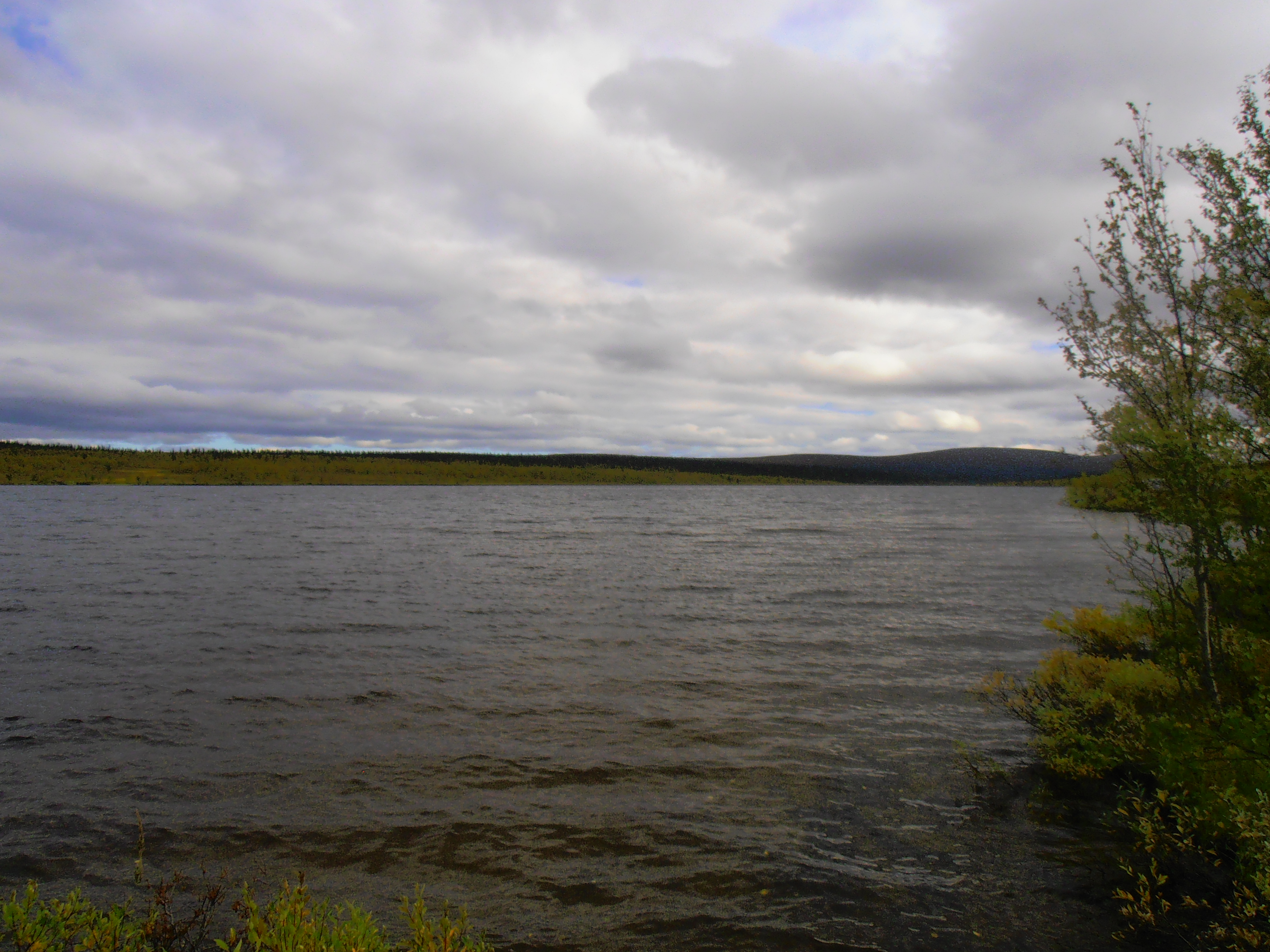 Paukijärvi in Pauki, Gällivare